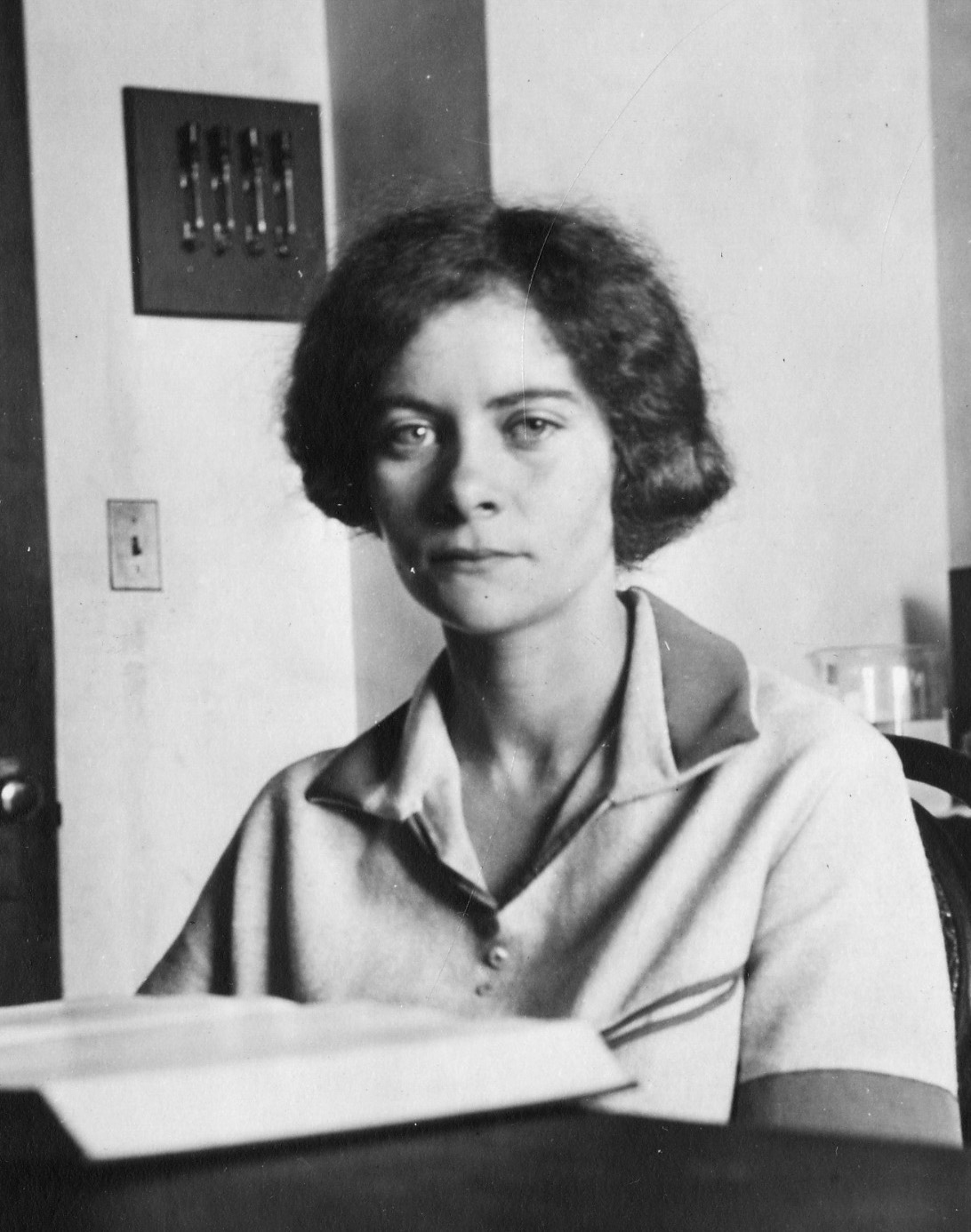 Description: From 1928 to 1966, Isabella Gordon (1901-1988) headed the Crustacea Section at the British Museum. Creator/Photographer: Unidentified photographer Medium: Black and white photographic print Persistent URL: [1] Repository: Smithsonian Institution Archives Collection: Science Service Records, 1902-1965 (Record Unit 7091) - Science Service, now the Society for Science & the Public, was a news organization founded in 1921 to promote the dissemination of scientific and technical information. Although initially intended as a news service, Science Service produced an extensive array of news features, radio programs, motion pictures, phonograph records, and demonstration kits and it also engaged in various educational, translation, and research activities. Accession number: SIA2008-1995